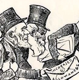 The Treasurer General of the Scanlen Government Charles William Hutton on the left. Colonial Secretary John Molteno in sunglasses on the right. Cape Colony. 1882.